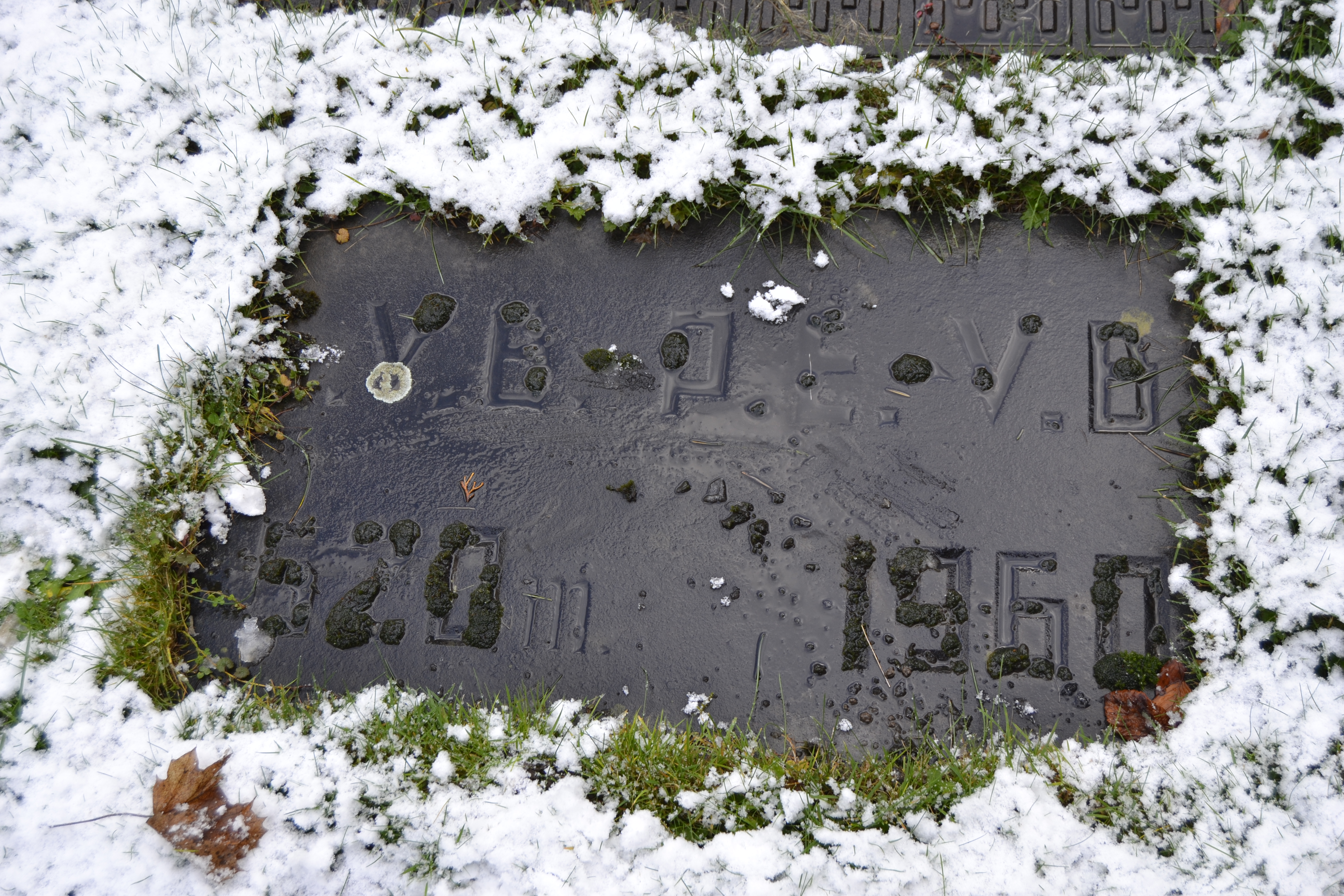 Ancient pit of the Val Benoit coal mine, in Liège, Belgium